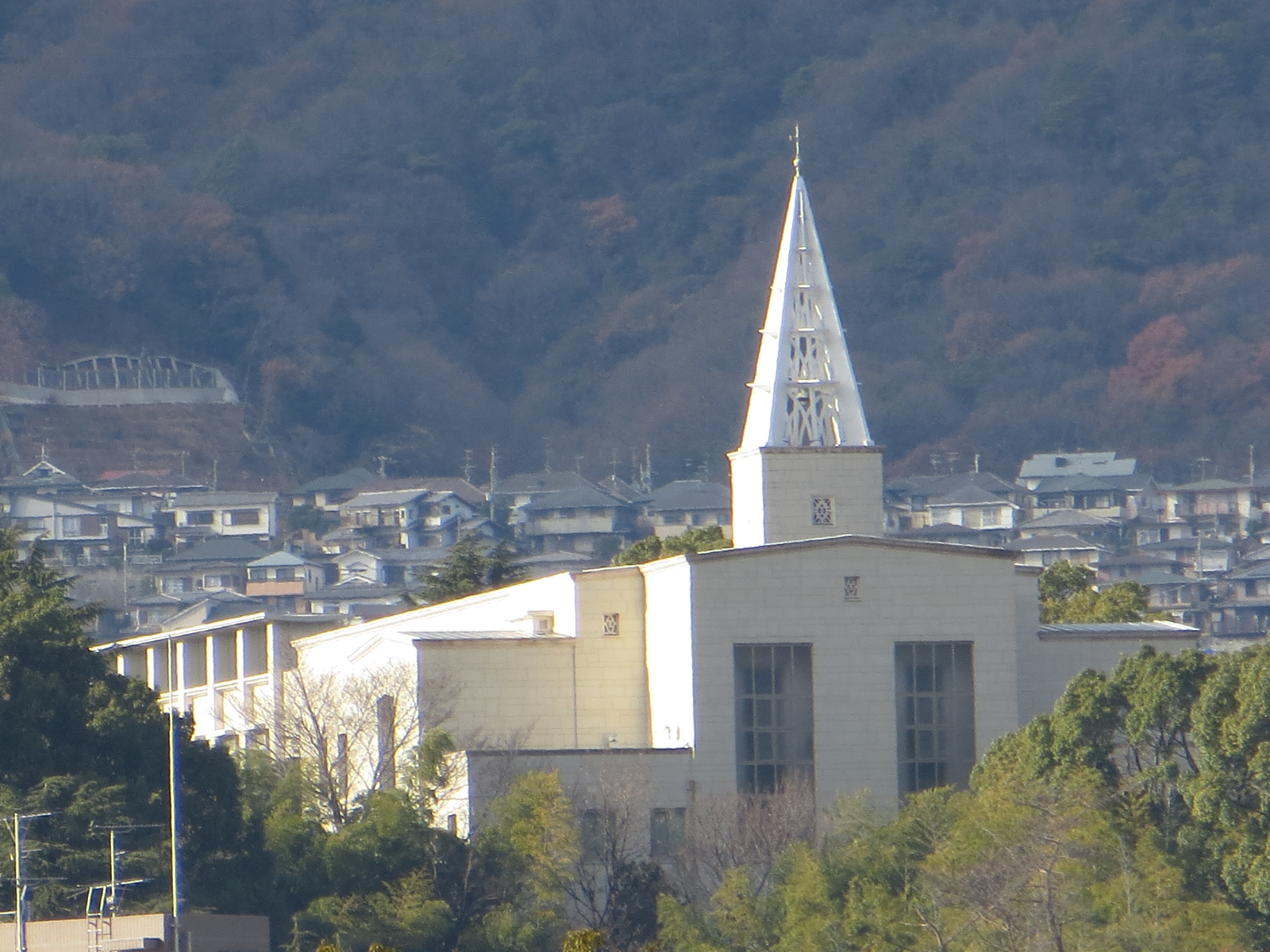 Bell tower from Sacred Heart School Obayashi, Takarazuka, Hyōgo.